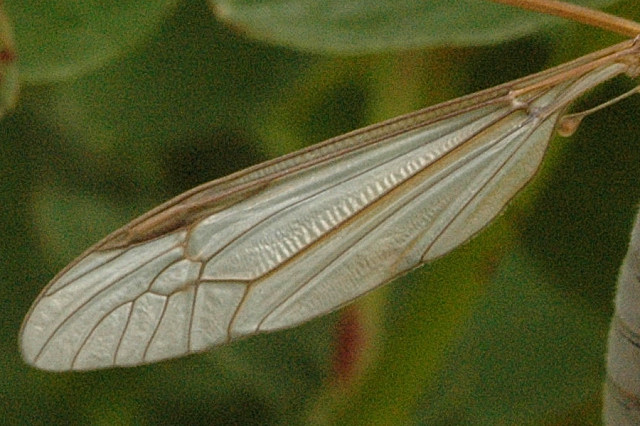 Picture taken in Commanster, Belgian High Ardennes . Species: Tipula oleracea, wing detail